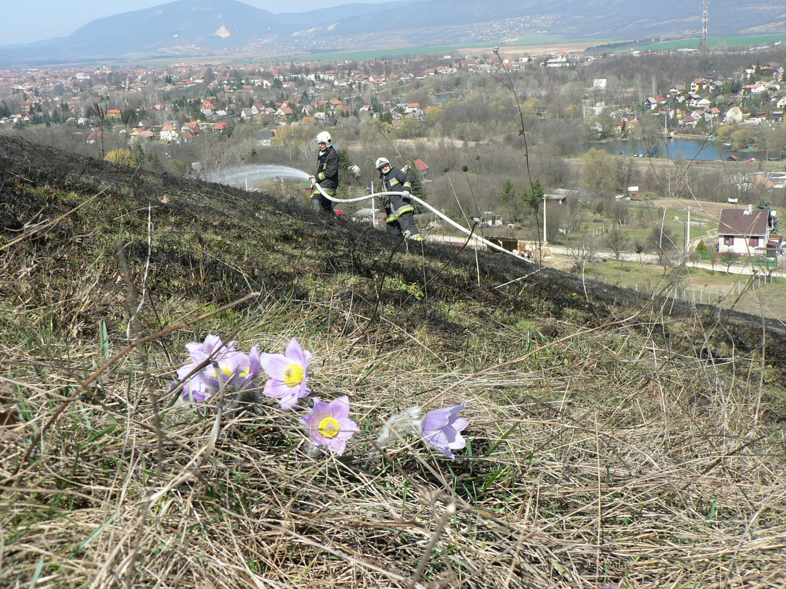 A Cigány-tó a Szél-hegy felől nézve